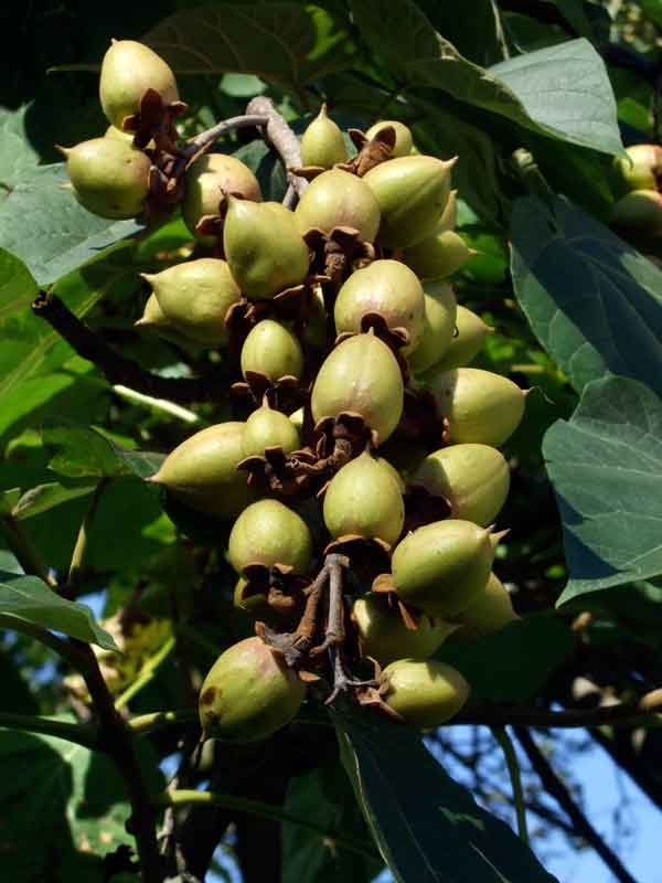 Fruits of Paulownia tomentosa